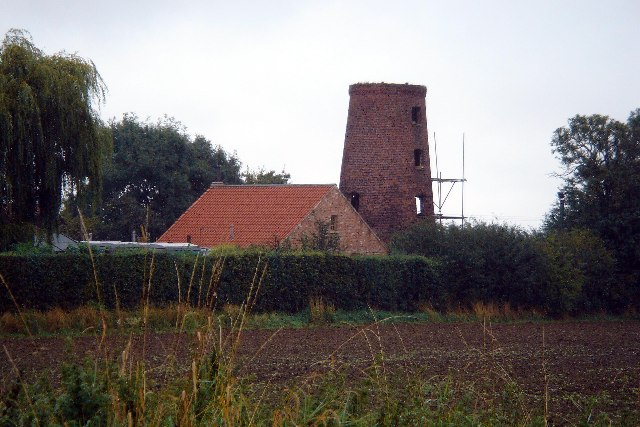 The Old Windmill. The Old Windmill, Alkborough, North Lincolnshire.